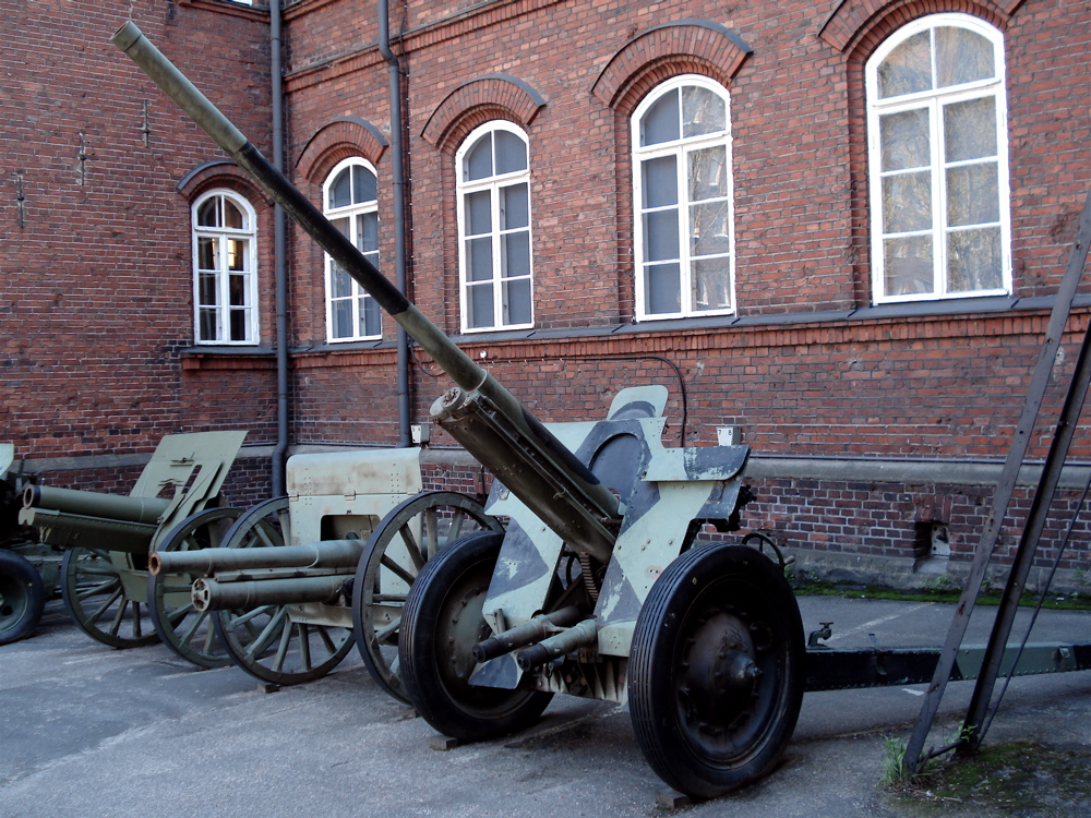 Soviet 76 mm F22 gun, displayed outside the Finnish Military Museum in Helsinki. Photo taken on May 27, 2006. Source: Photo by me, User:Balcer.